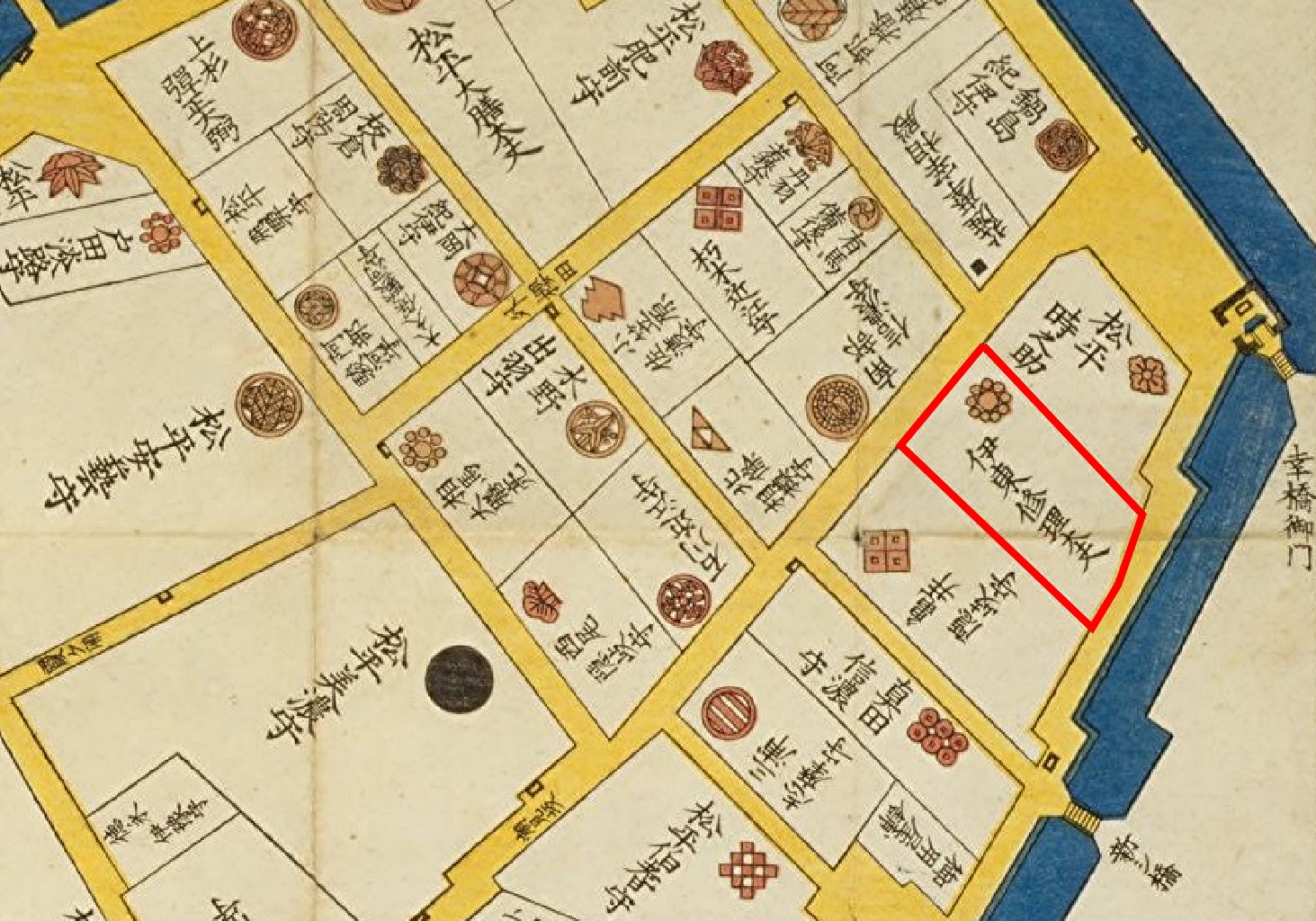 A residence of Itô clan at Edo